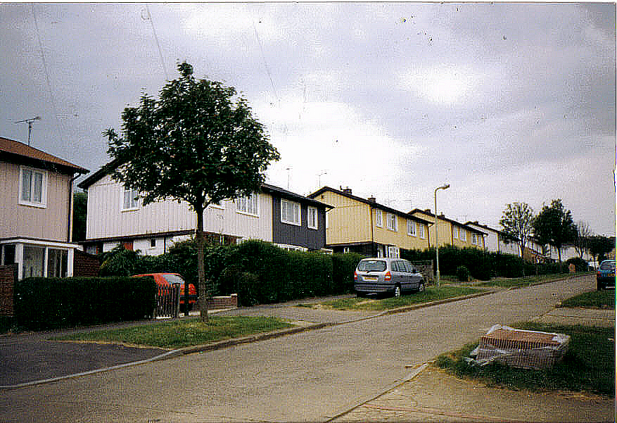 A picture of Withycombe Drive. It was built in 1947 and filled with a mixture of Londoners and local Banburians. It was shot by me in 2003.